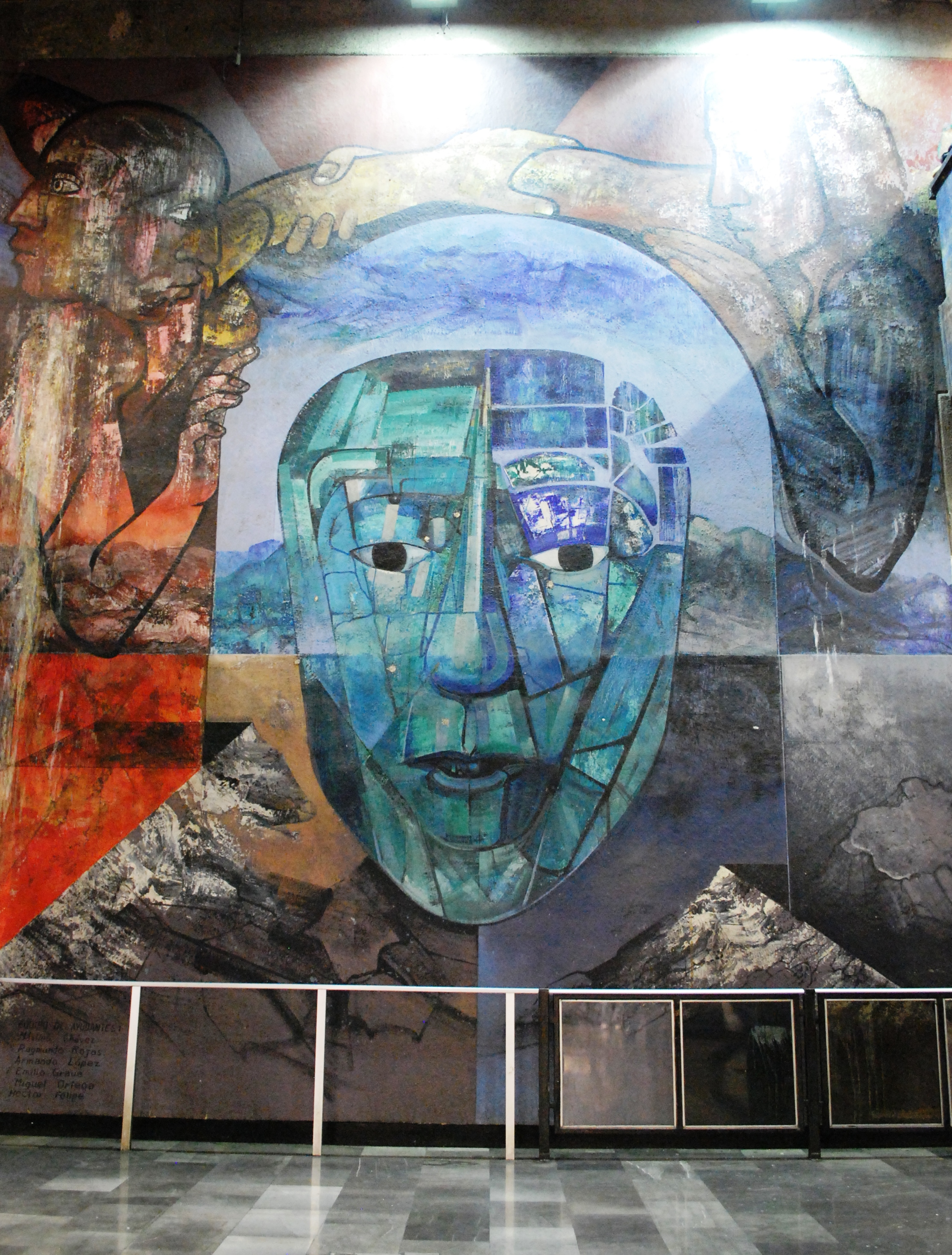 View of Mask Mural in the Line 1 section of Metro Tacubaya Principle artist, Guillermo Ceniceros Reyes with help from Màximo Chavez, Raymundo Rojas, Armando Lopez, Emilio Grave, Miguel Ortega and Hector Felipe